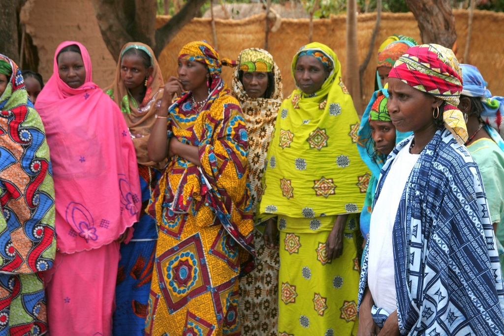 Original caption: In Paoua, women communities receive help from the Danish Refugee Council to set up small businesses. Credits: Brice Blondel for HDPTCAR